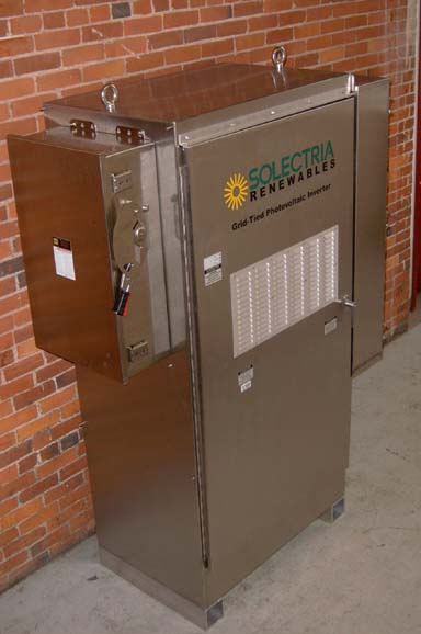 Stainless steel 95KW grid-tied inverter by Solectria Renewables.